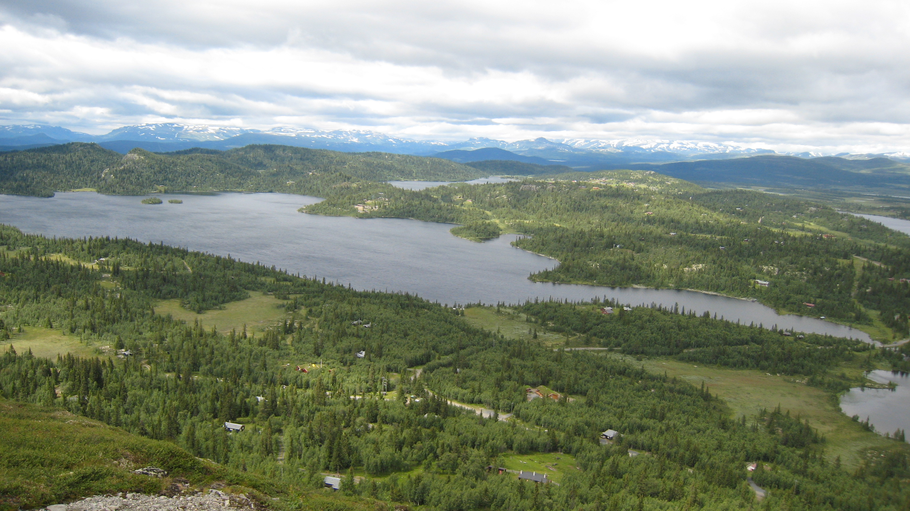 Photo of lake Røyri in Øystre Slidre, Valdres, Norway